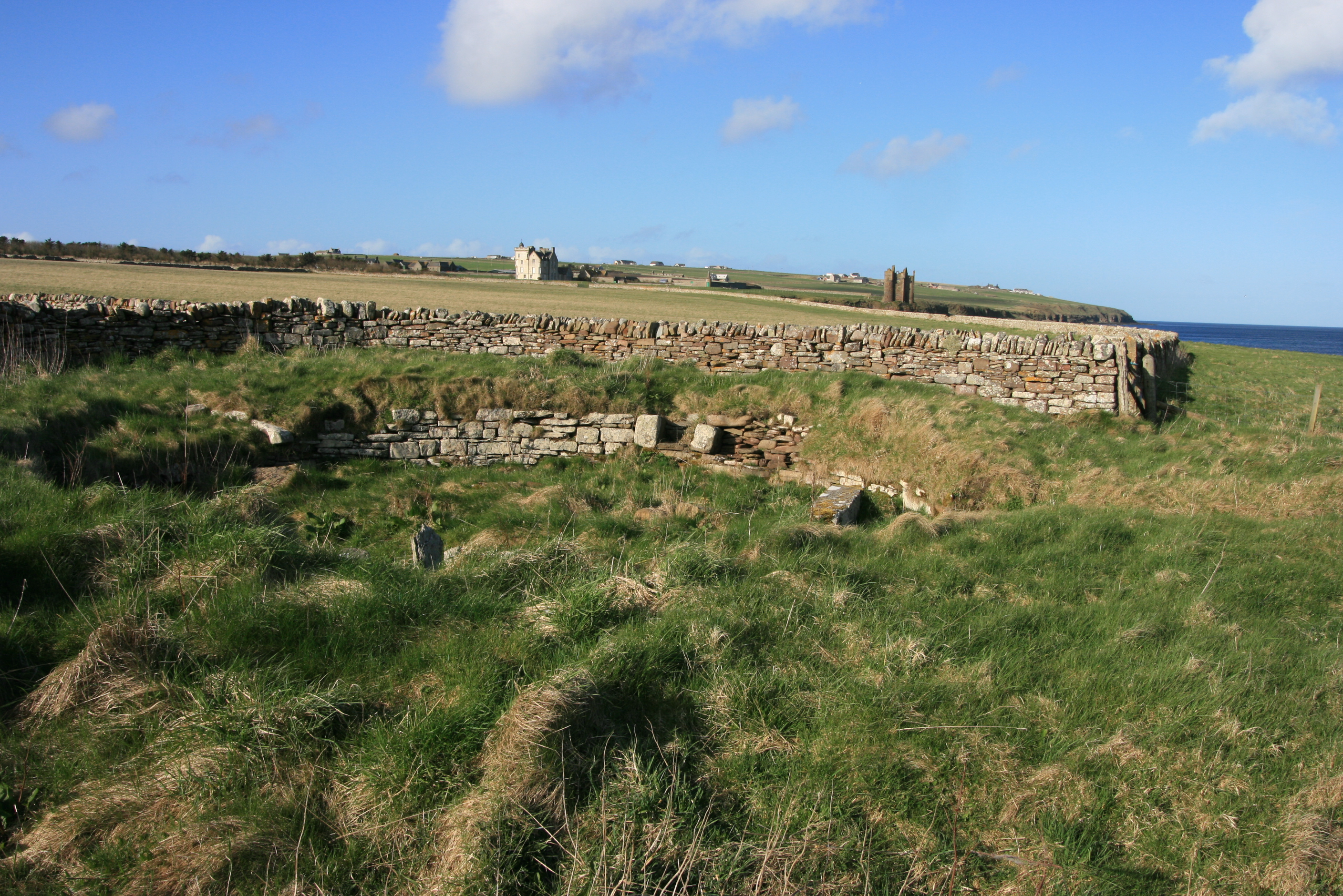 Whitegate Broch, Keiss